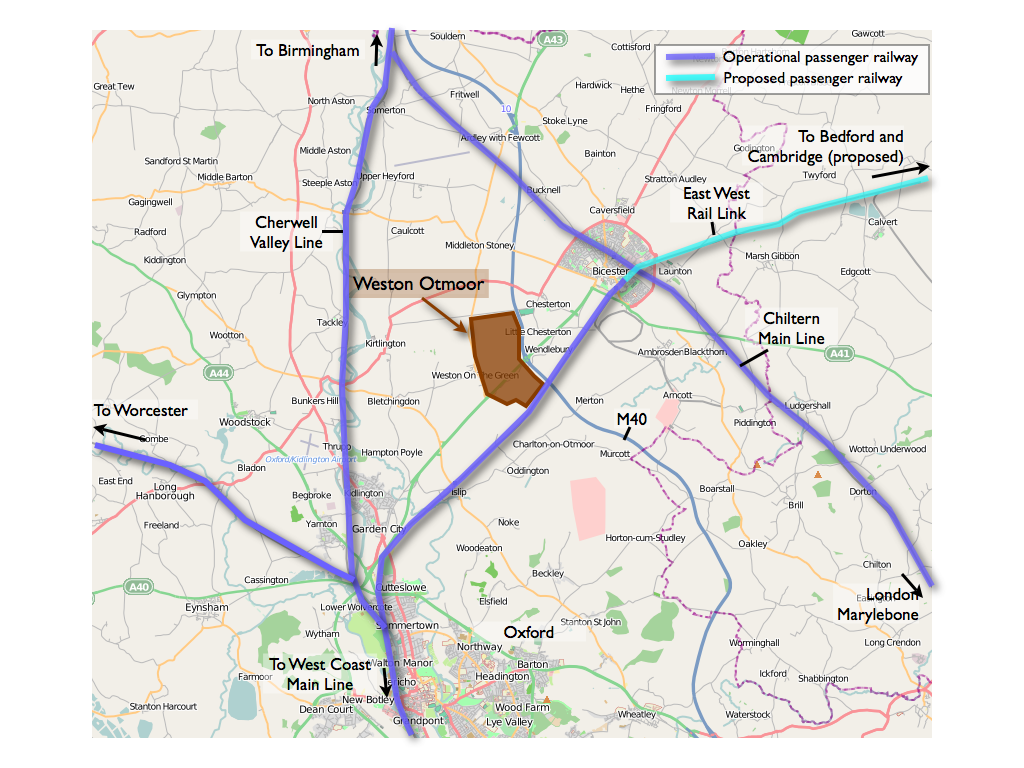 A map showing the location of Weston Otmoor proposed ecotown